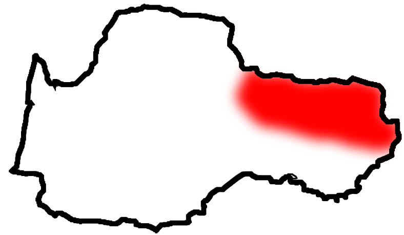 Vivaro-alpin dialect of occitan language